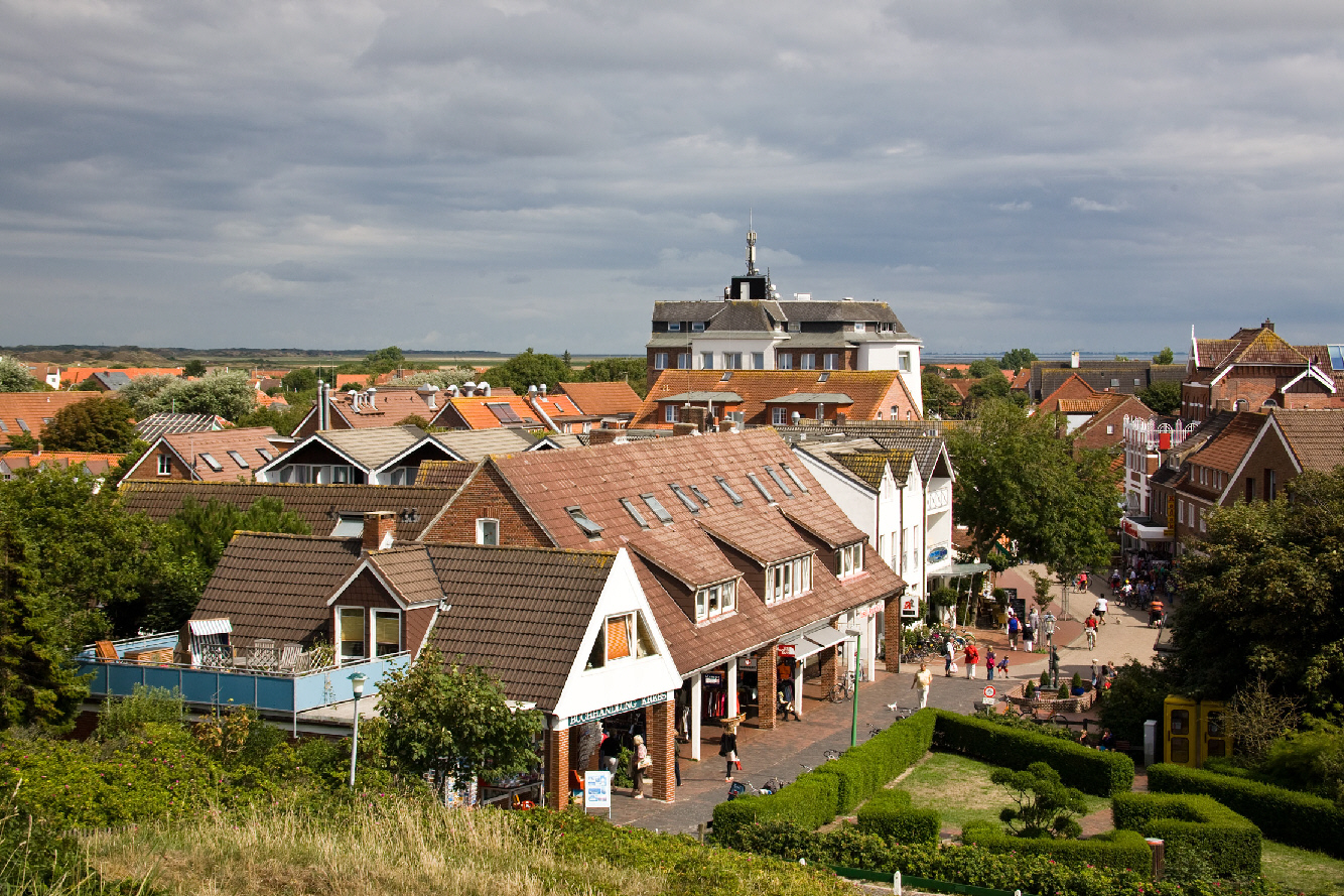 Overview from the water tower of Langeoog, Lower Saxony, Germany.